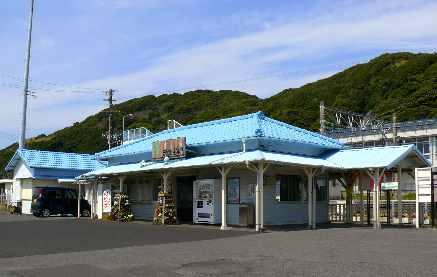 Hamakanaya Station（Chiba prefecture , Japan）.